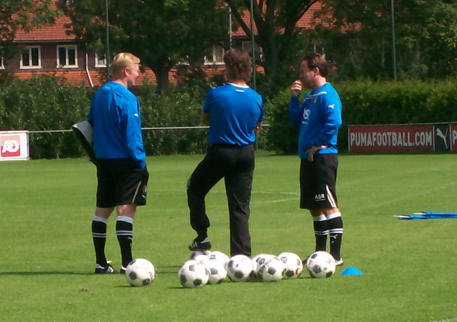 The Feyenoord staff of 2011